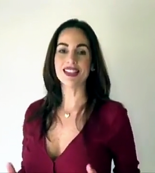 Miss Mundo Venezuela 1995, Jacqueline Aguilera.